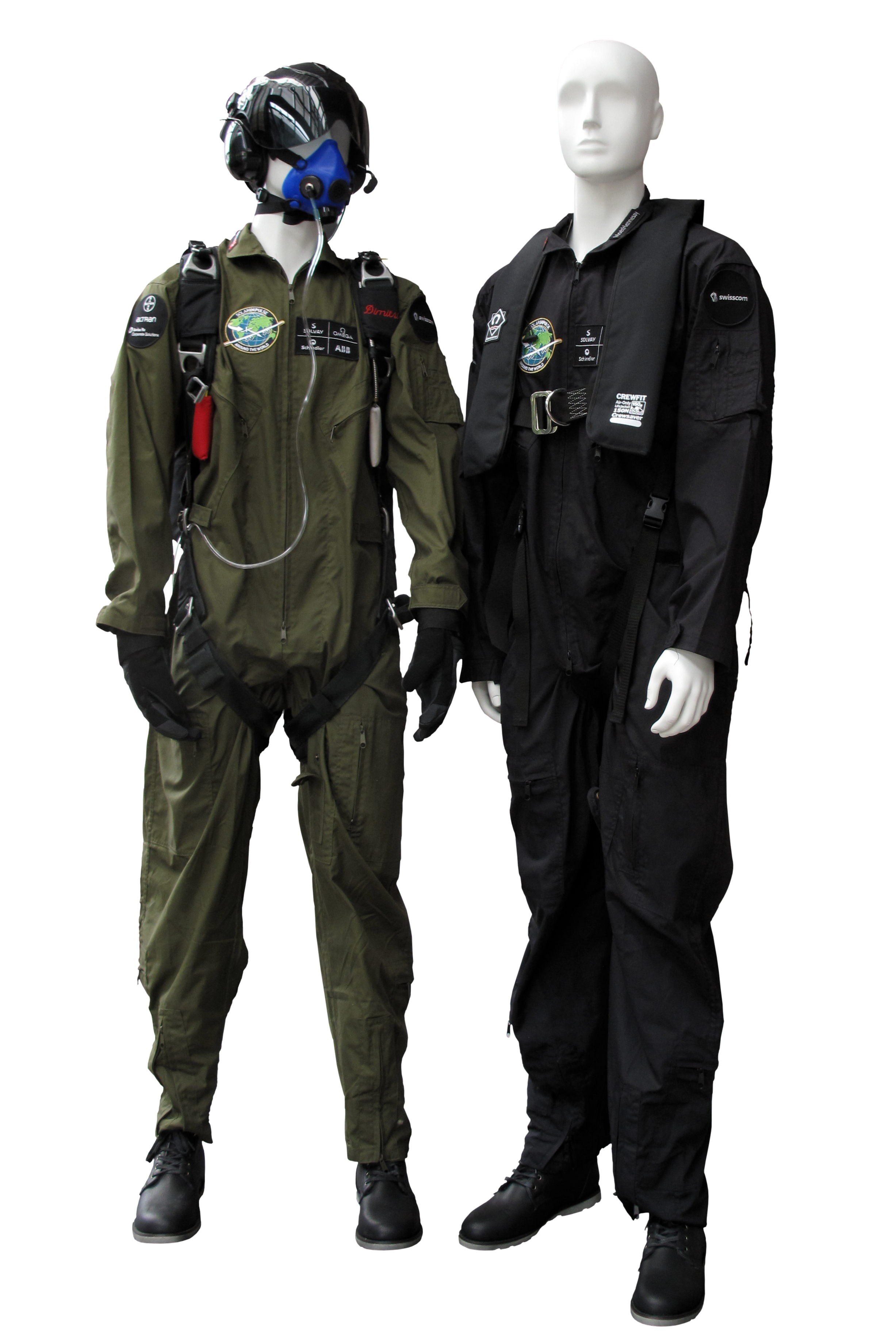 Uniforms of Solar Impulse